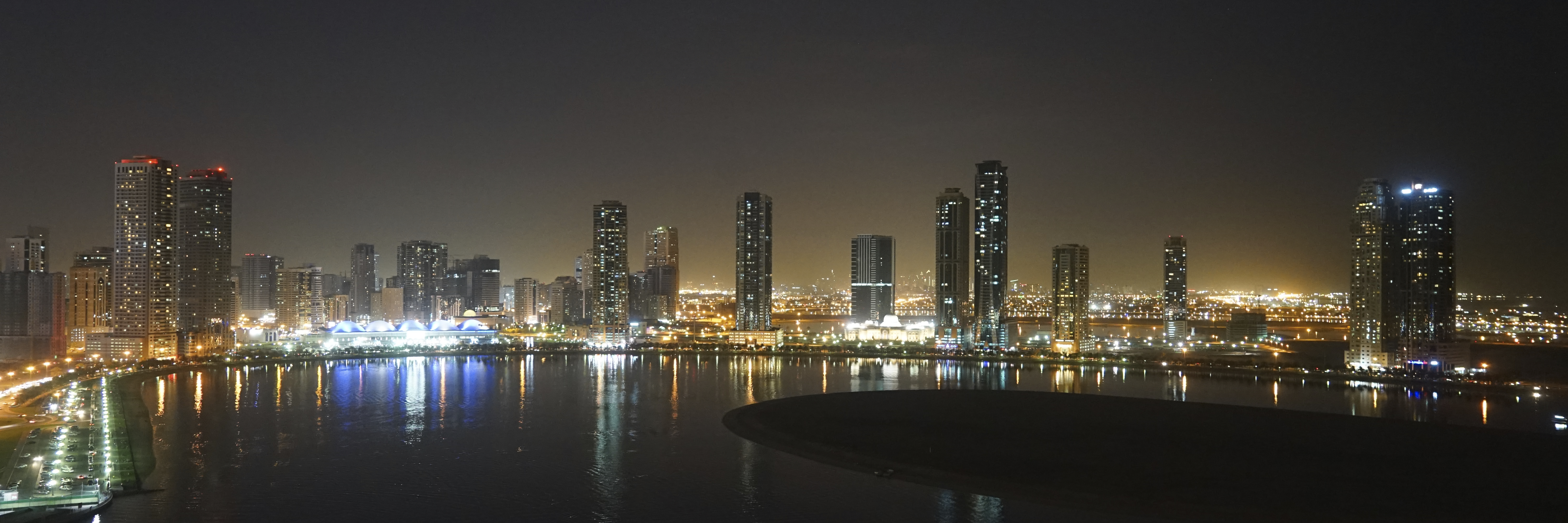 Panoramic view of the Al Khan Lagoon looking south by night.